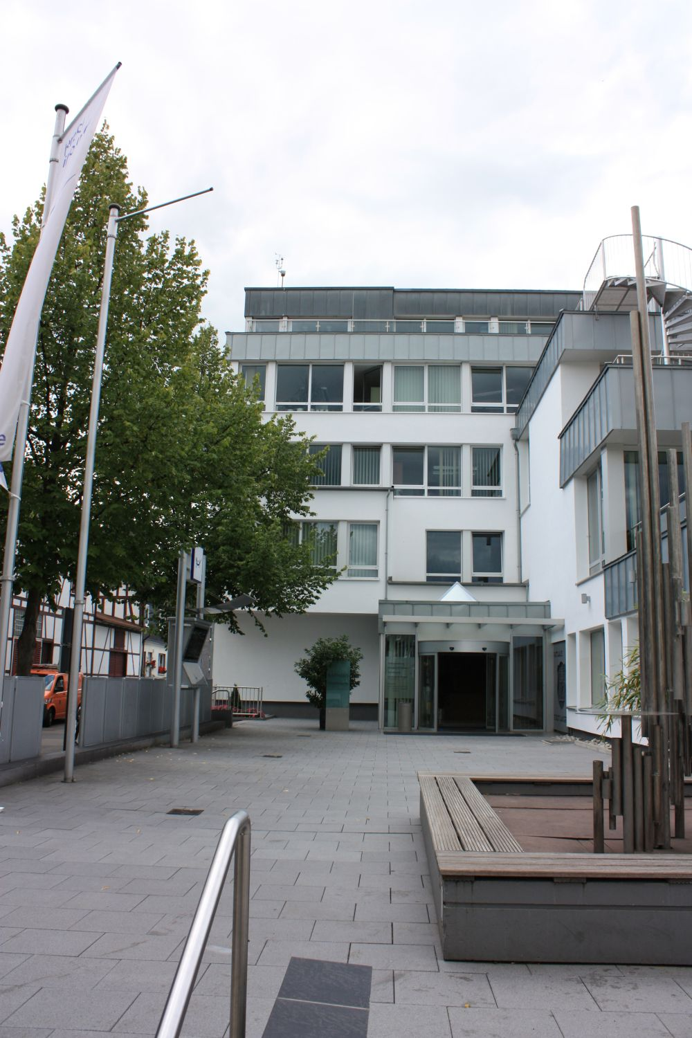 Town Hall in Haiger, Hesse, Germany